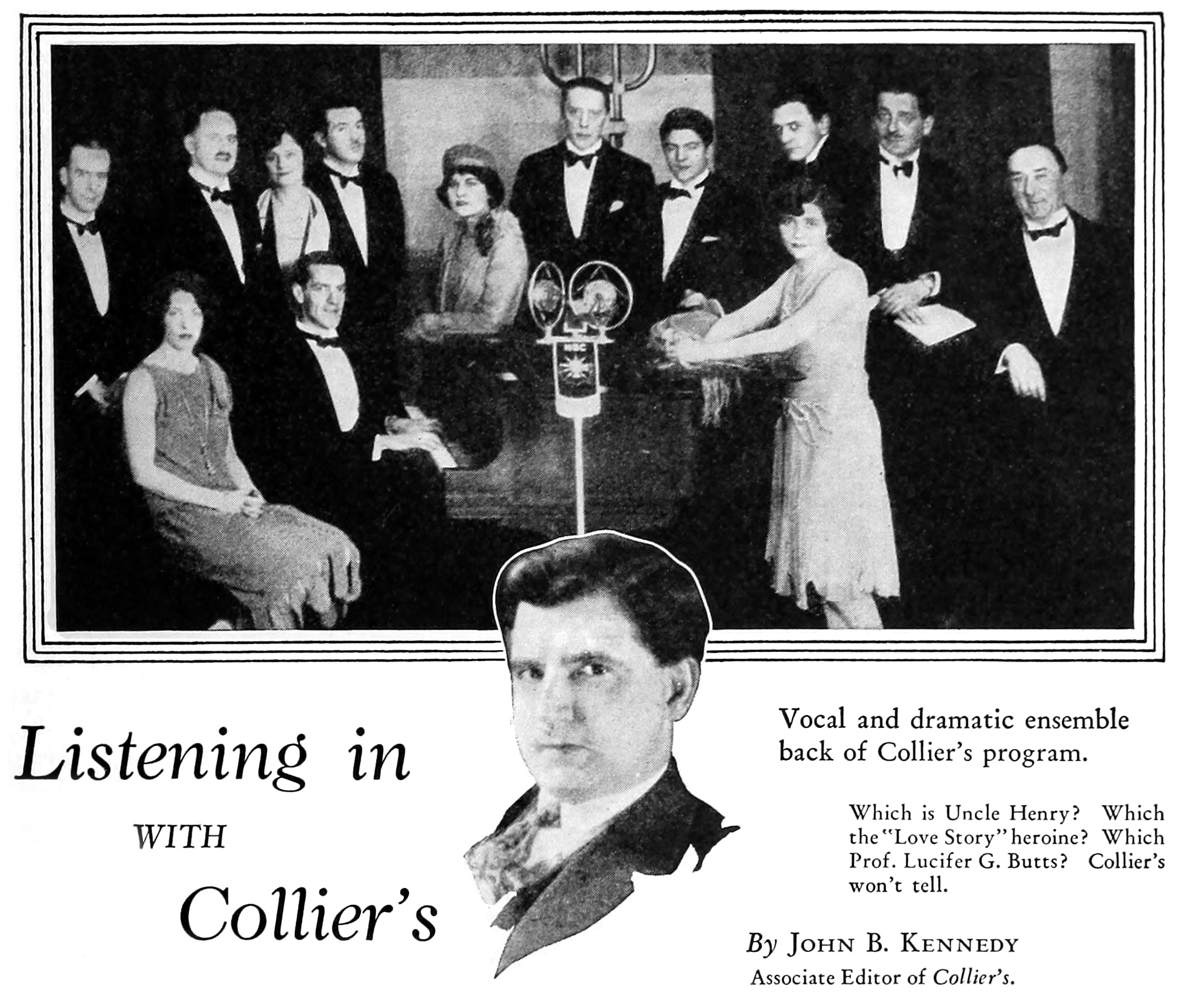 Photograph of the radio company presenting The Collier Hour and host John B. Kennedy, associate editor of Collier's magazine and author of the feature story "Listening in with Collier's"